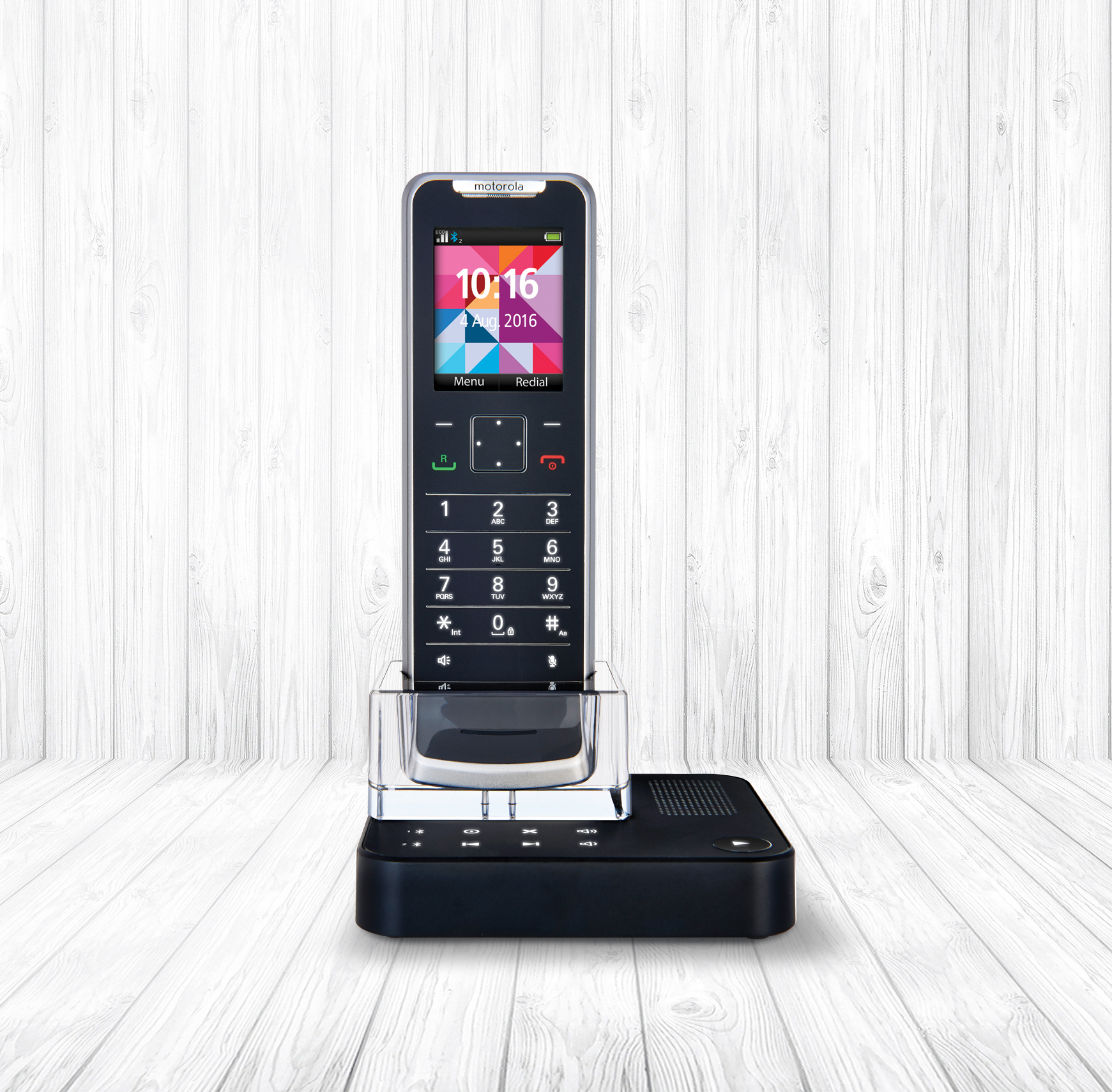 At 6.2mm the Motorola IT.6 is the slimmest DECT cordless telephone made. Manufactured by SGW Global